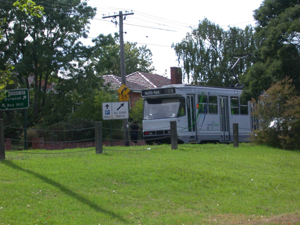 Tram to Wattle Park 1